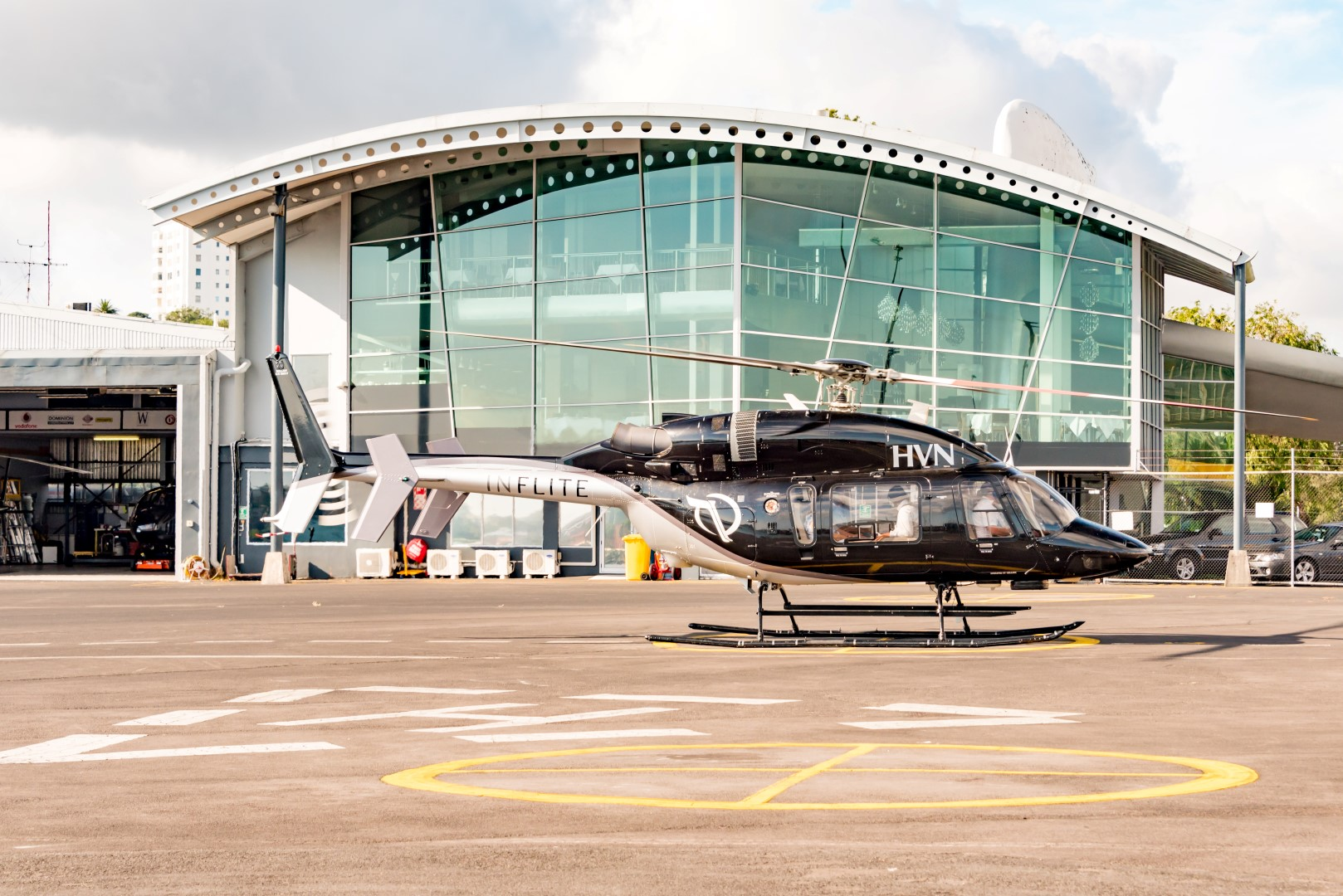 INFLITE Helicopter at Mechanics Bay - Bell 427 ZK-HVN